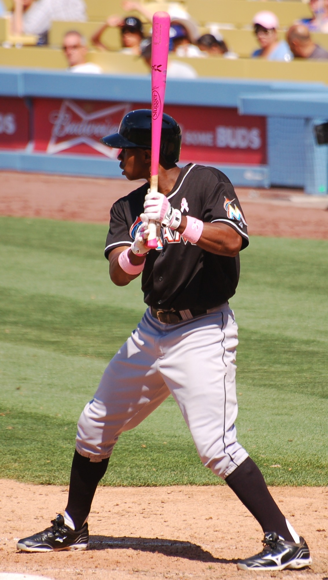 Pierre final season in majors